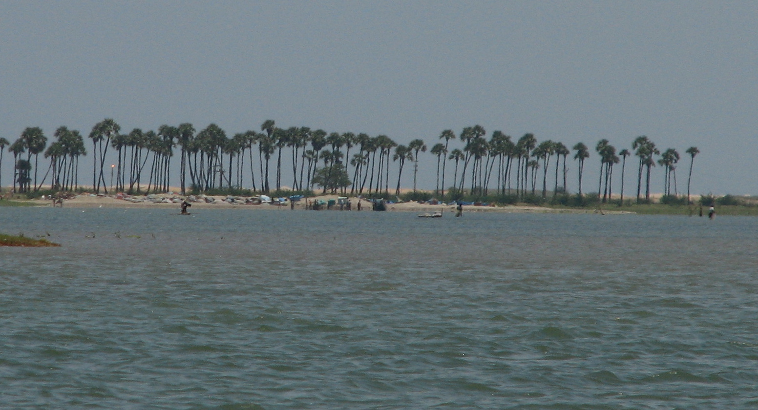 Palmyra palm trees and fishing camp on the barrier islands of Pulicat Lake.